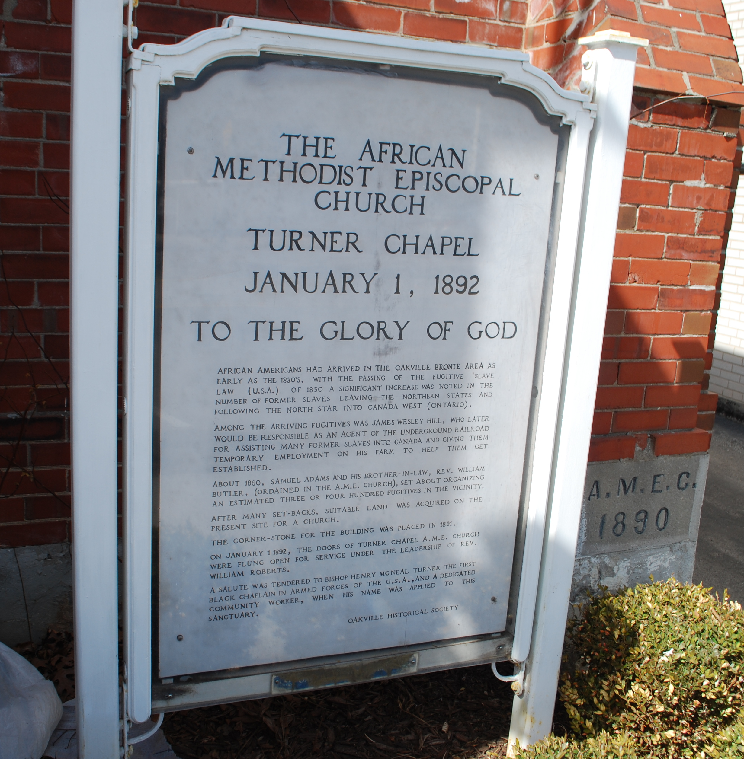 Exterior of Turner Chapel